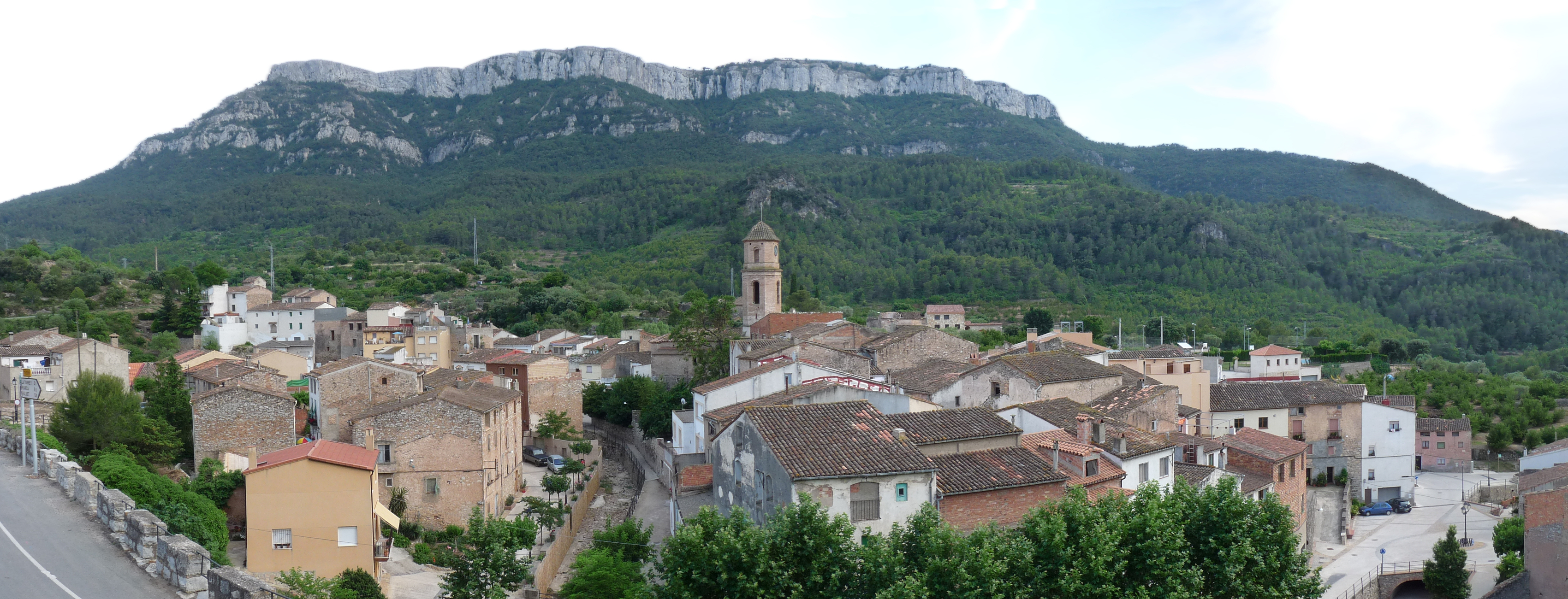 La Torre de Fontaubella at the slope of Mola de Colldejou